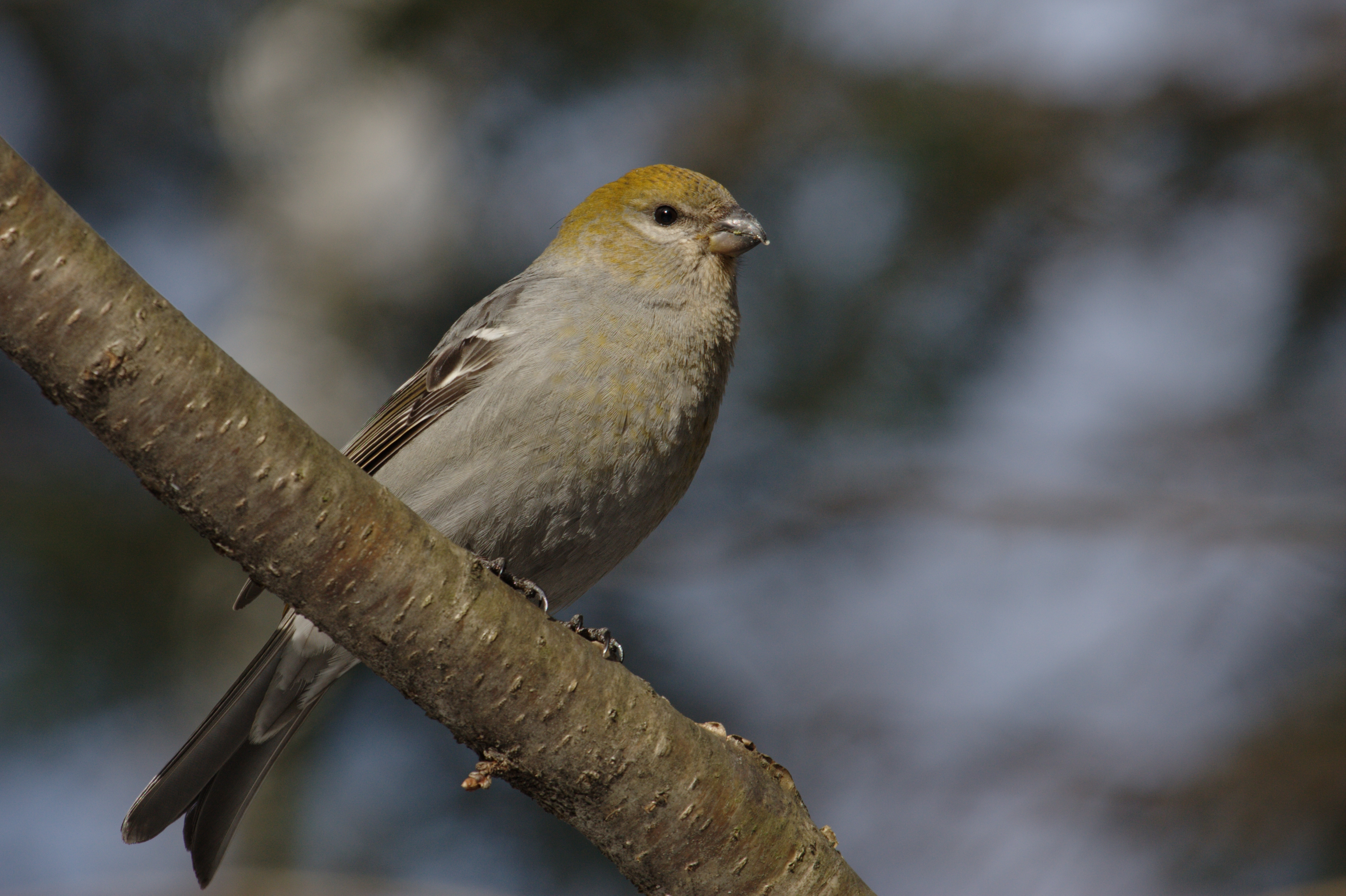 Pine Grosbeak (Pinicola enucleator), female or young male, Cap Tourmente National Wildlife Area, Quebec, Canada